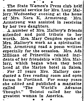 Report of the memorial service of Lucy A. Mallory of Portland, Oregon.